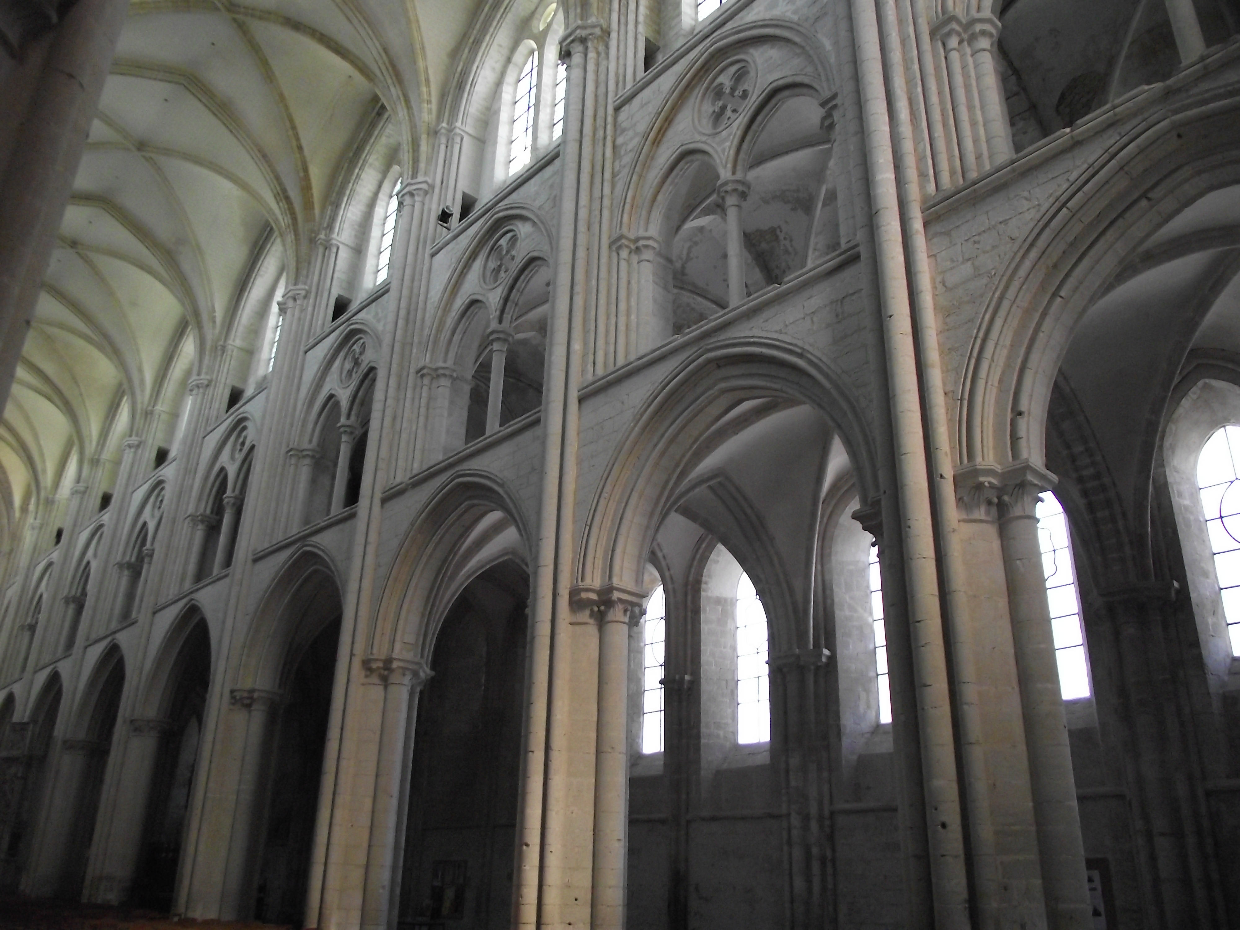 Fécamp, Trinity Abbey, XII-XIII Century